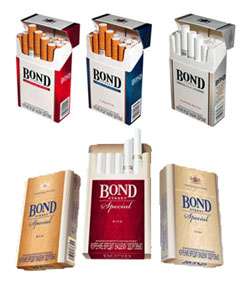 Photo of "Bond Street" cigatette boxes (brand of Phillip Morris International / Altria Group).